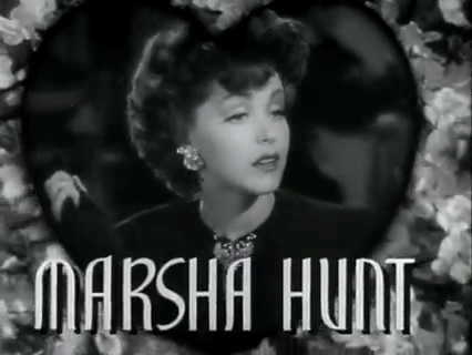 Marsha Hunt Seven Sweethearts 1942 Frank Borzage